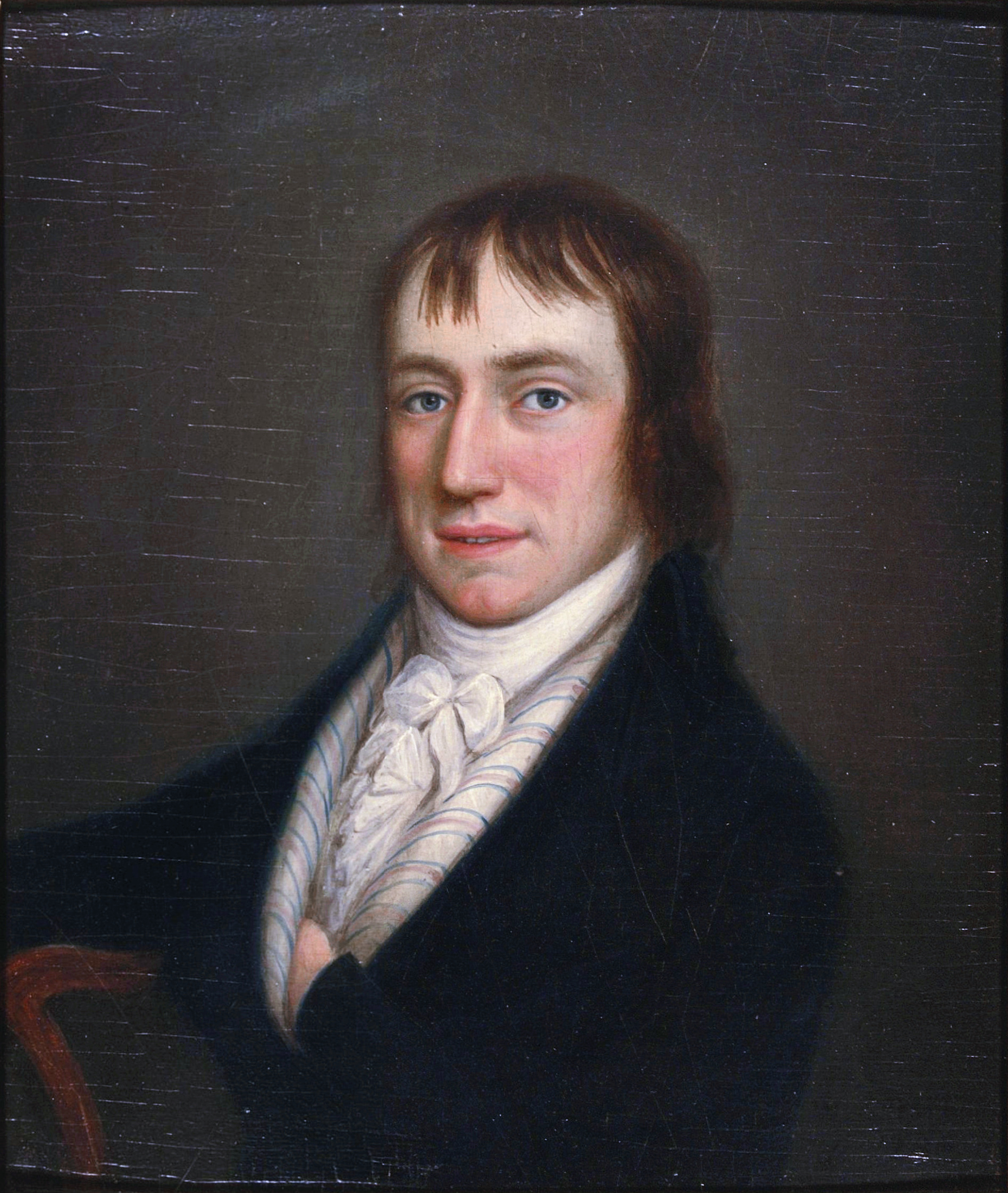 Portrait of William Wordsworth by William Shuter, lightly processed and cropped by Fowler&fowler«Talk» 18:45, 10 March 2009 (UTC)